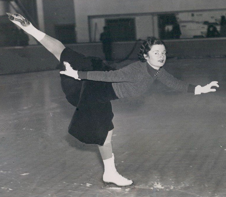 1935 Audrey Peppe New York Skating Club Ice Skater Form Leg Lift Press Photo